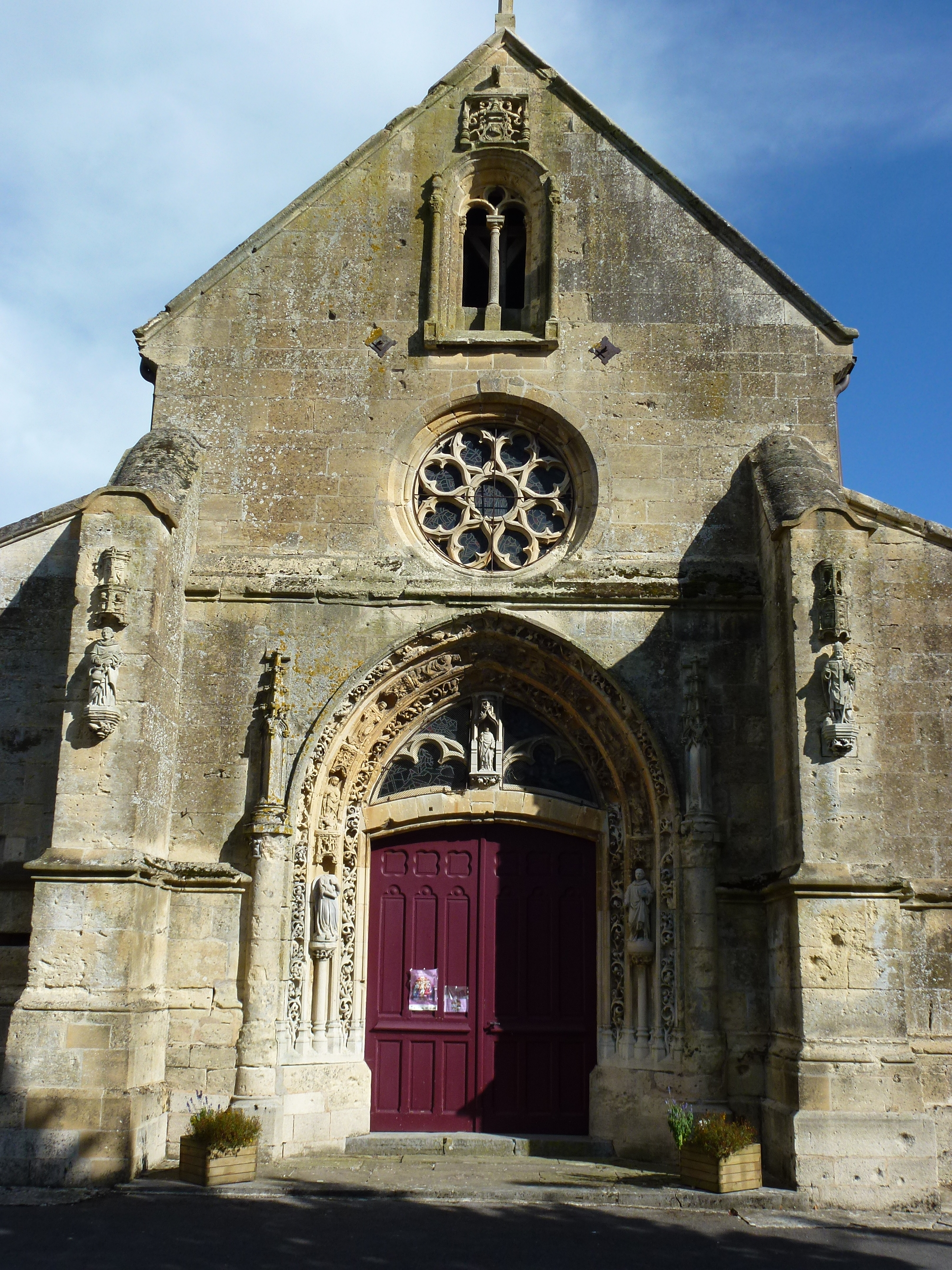 Charbogne (Ardennes) église Saint-Rémi, façade